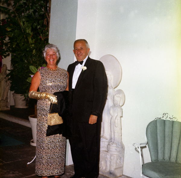 Mr. & Mrs. Tom Carvel at the Everglades Club for the St. Mary's Hospital ball in Palm Beach.